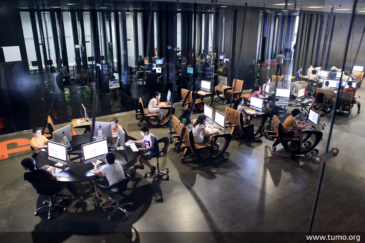 Full house season at Tumo